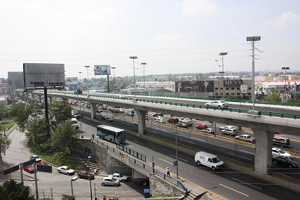 Viaducto Bicentenario's view in the 1o de Mayo avenue area in the Naucalpan municipality